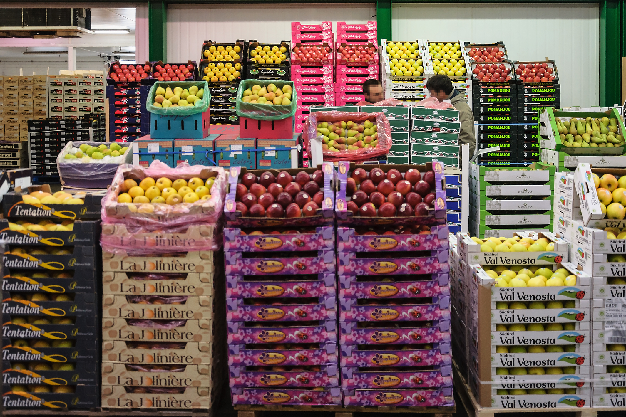 Fruit crates, stall of apples at the Rungis International Market, France.